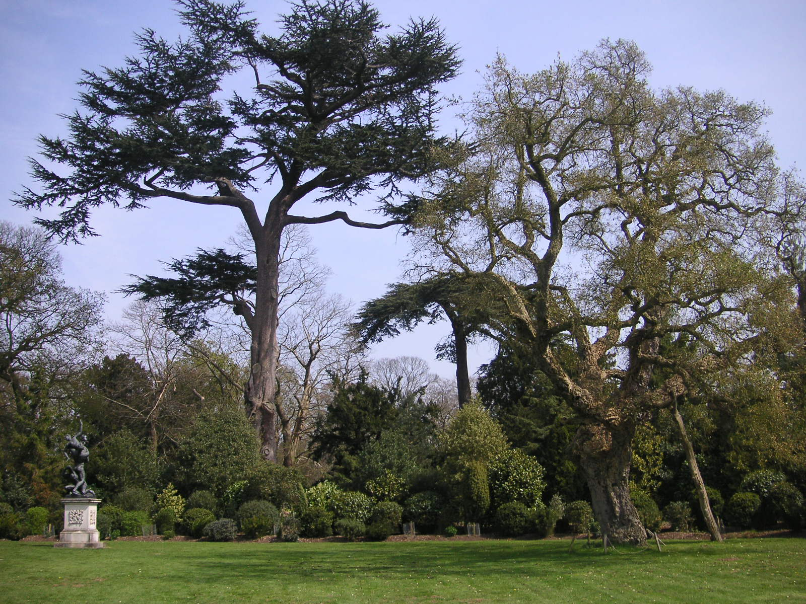 Painshill Park, Surrey, England. View of an 18th century landscape garden designed by Charles Hamilton MP, showing a Cork Oak and two Cedars. The statue is cast in lead from an original of the 16th century by Giambologna, The Rape of the Sabines.